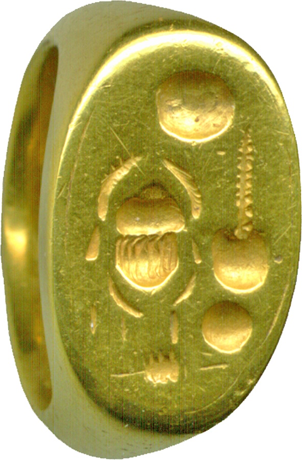 This heavy gold signet ring bears the throne name of the Egyptian pharaoh Akhenaten (1351-1334 BC). It was cast in one piece; the deeper parts of the hieroglyphics were cut into the model before casting and the finer details chased onto it afterwards. The hieroglyphs on the bezel of the ring are not consistent with the style of the Amarna Period (particularly the shape of the kheper-beetle, as well as the nefer-sign next to it). The ring was bought in Cairo in 1929 and it is possible that it was produced in Egypt in the time of the excavations at Amarna (capital of Akhentaten in Middle Egypt) in the early 20th century or shortly after.